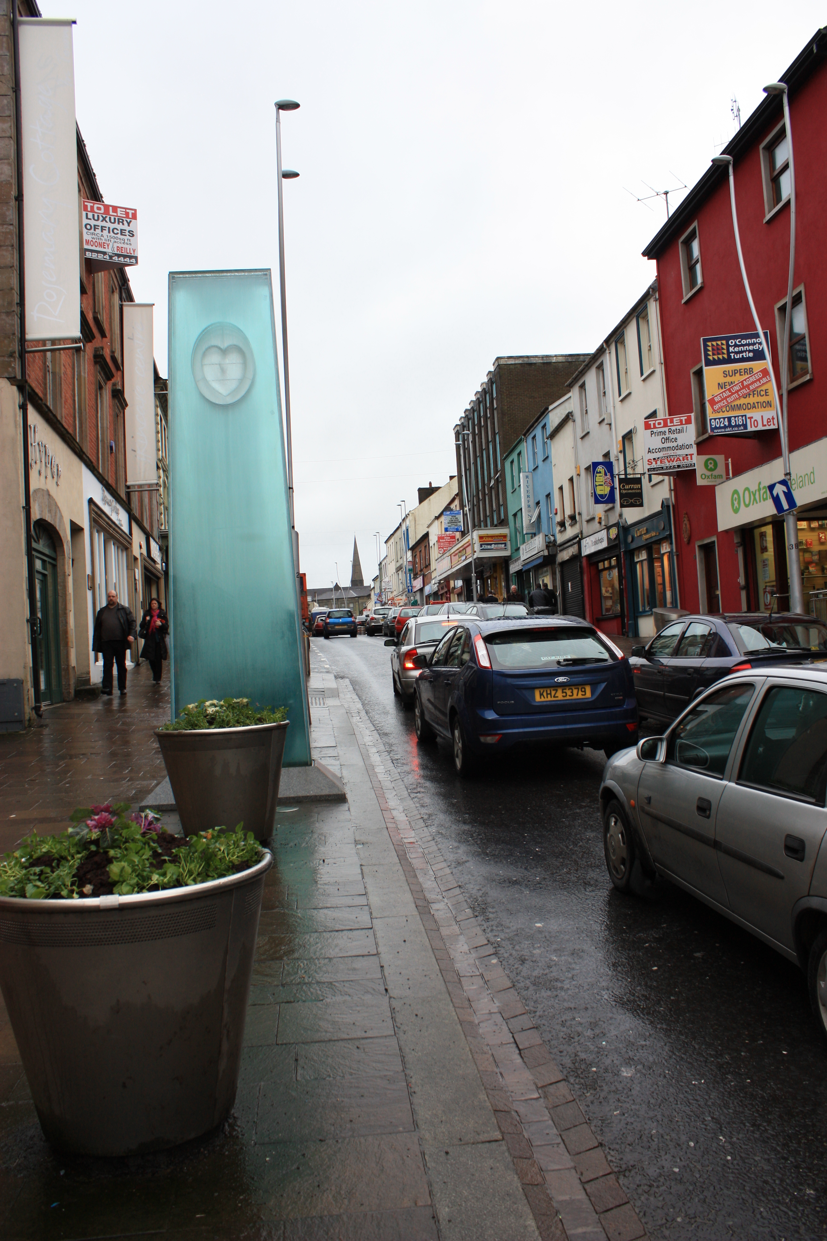 Omagh Bomb Memorial, Market Street, Omagh, County Tyrone, Northern Ireland, January 2010 (looking up Market Street towards High Street)